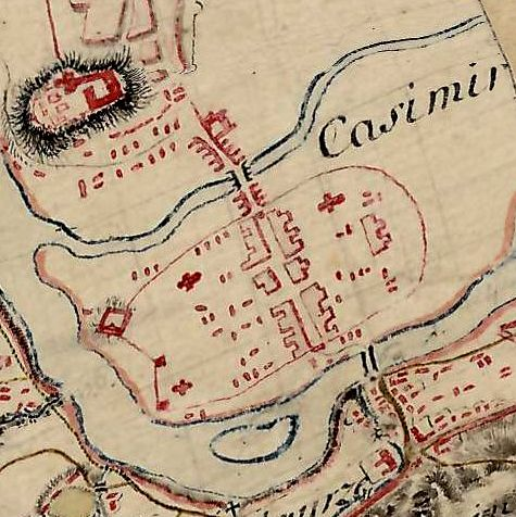 Old maps of Kraków